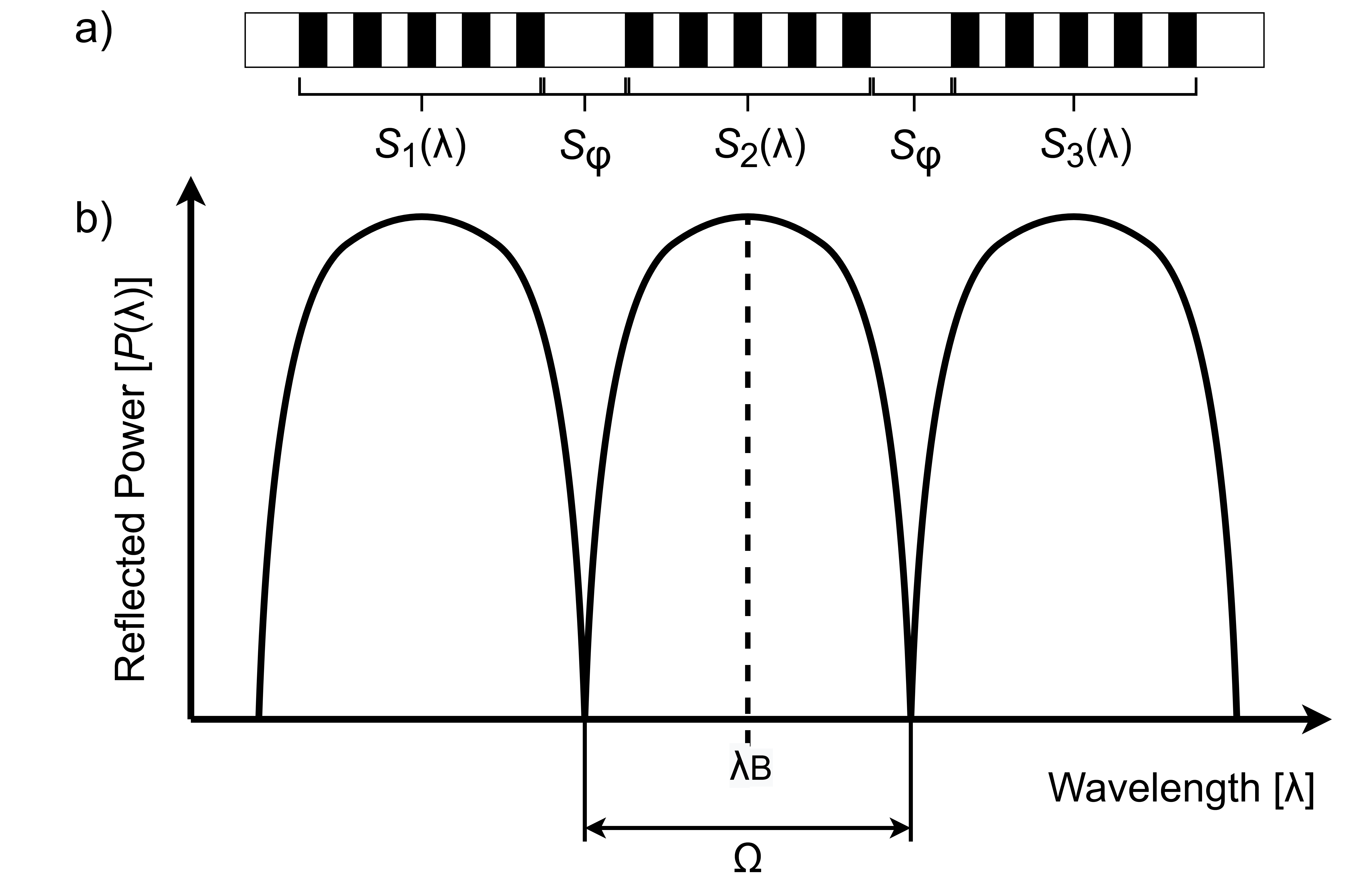 The scheme represents a 2π-FBG addressed fiber Bragg structure as a three sequential FBGs (a) and a schematic representation of its spectral response (b)